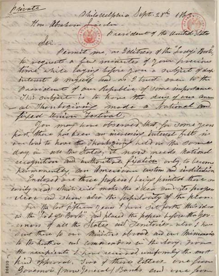 September 1863 letter from editor Sarah Josepha Hale to President Abraham Lincoln discussing the need for a national Thanksgiving holiday.